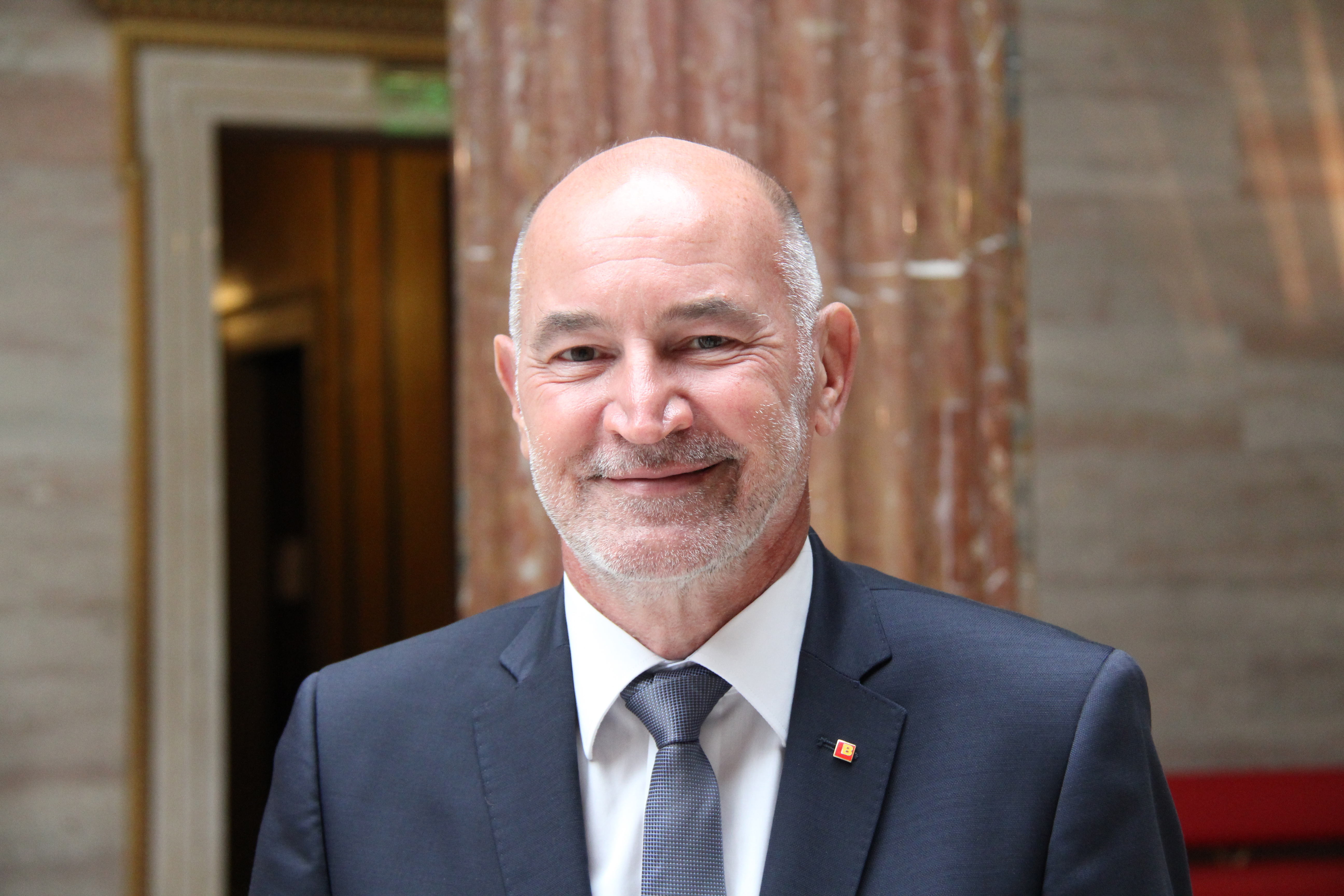 Peter Heger, Austrian politician (SPÖ) and member of the Federal Council